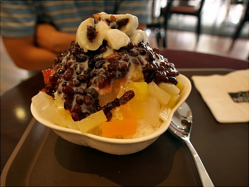 Patbingsu, a Korean shaved ice dessert.